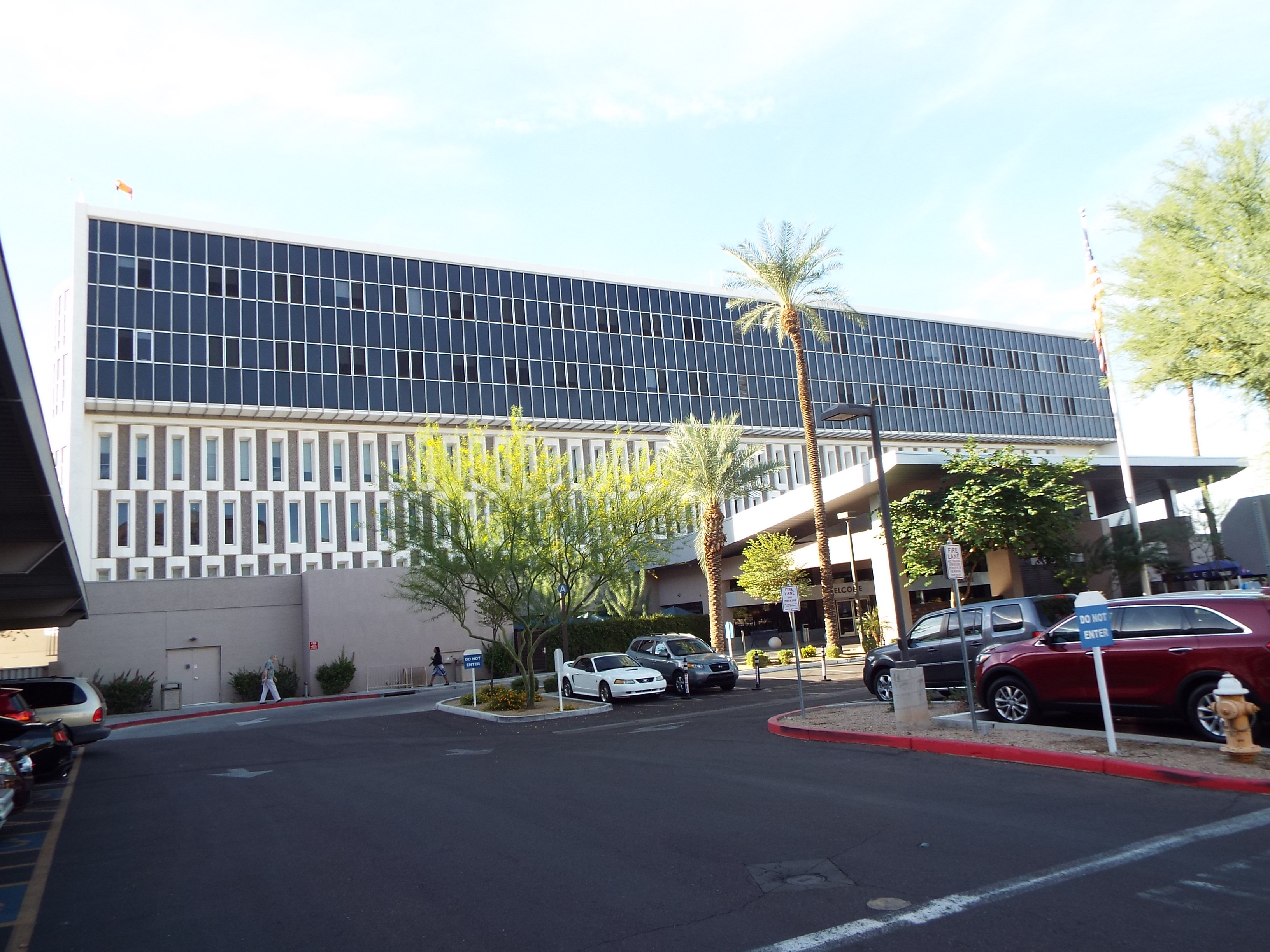 The John C. Lincoln Medical Center in Sunnyslope, Arizona. Named after John C. Lincoln (July 17, 1866 - May 24, 1959) an American inventor, entrepreneur and philanthropist.